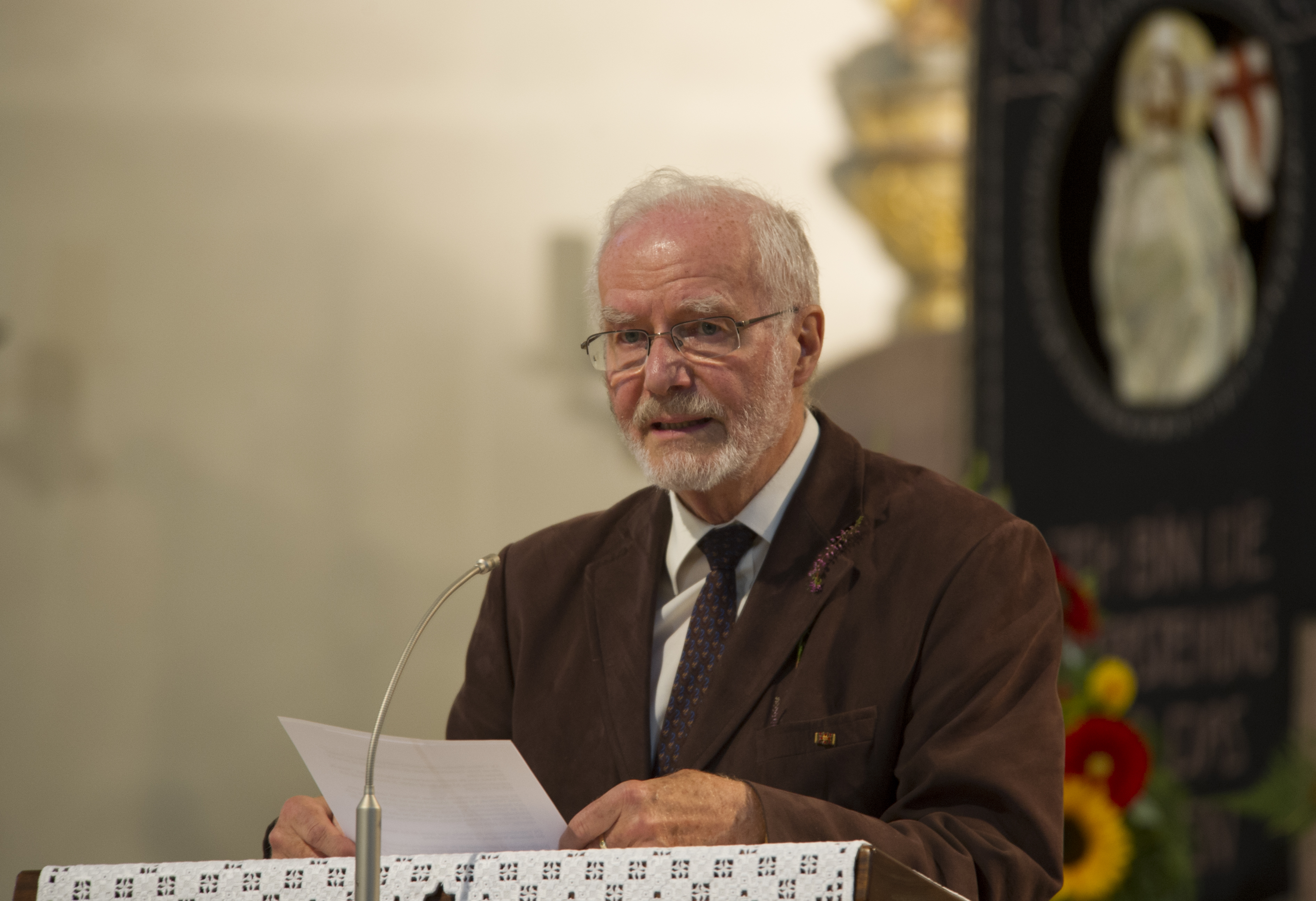 RAMSTEIN, Germany -- Dr. Hartmut Jatzko delivers opening remarks at a memorial service in the St. Nikolas Church for the 70 people who died in the 1988 Ramstein air show disaster, August 28, 2013. The service marked the 25th anniversary of the disaster.